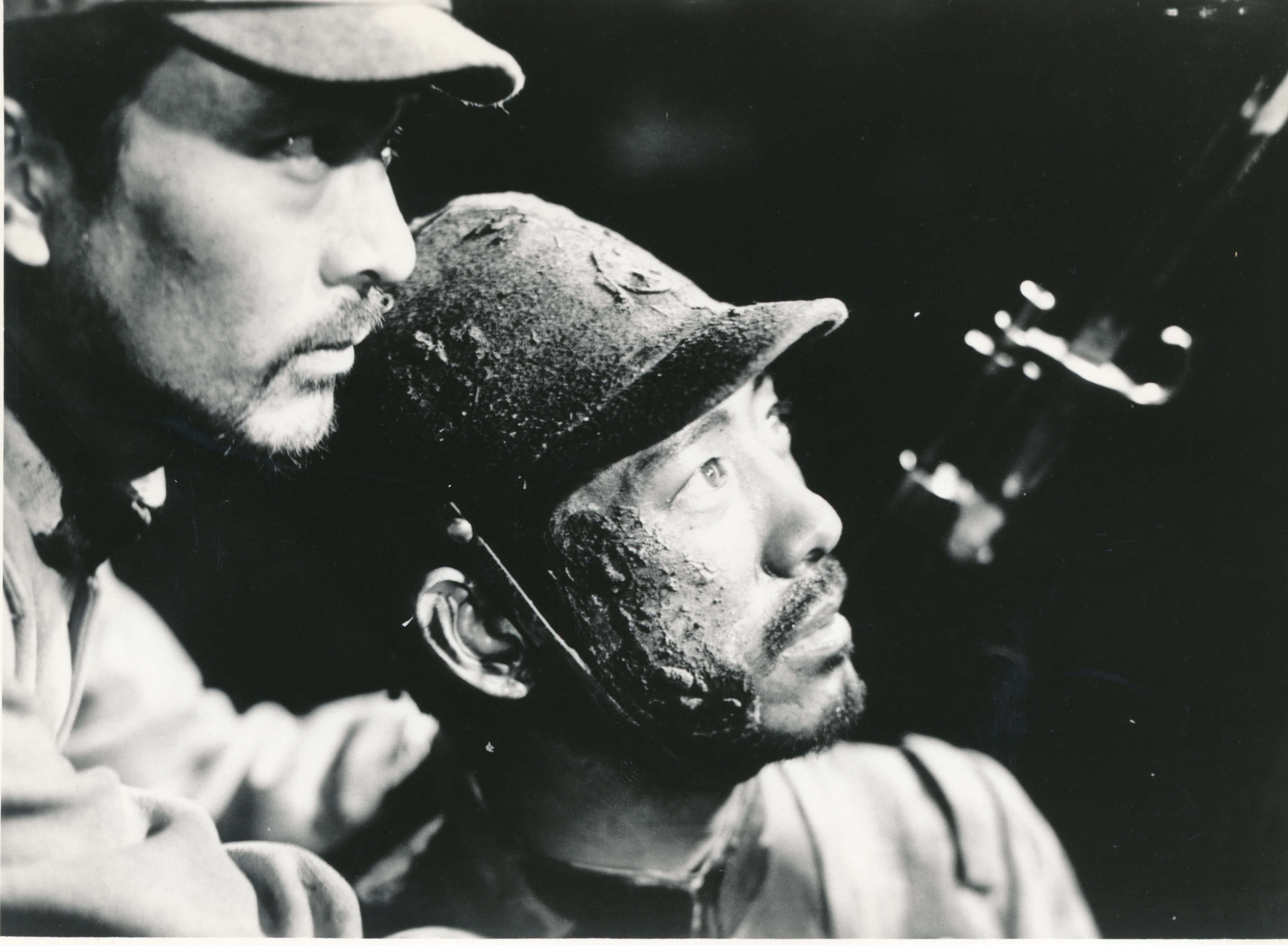 Scene from Gonin no sekkōhei (五人の斥候兵) directed by Tomotaka Tasaka - 1938